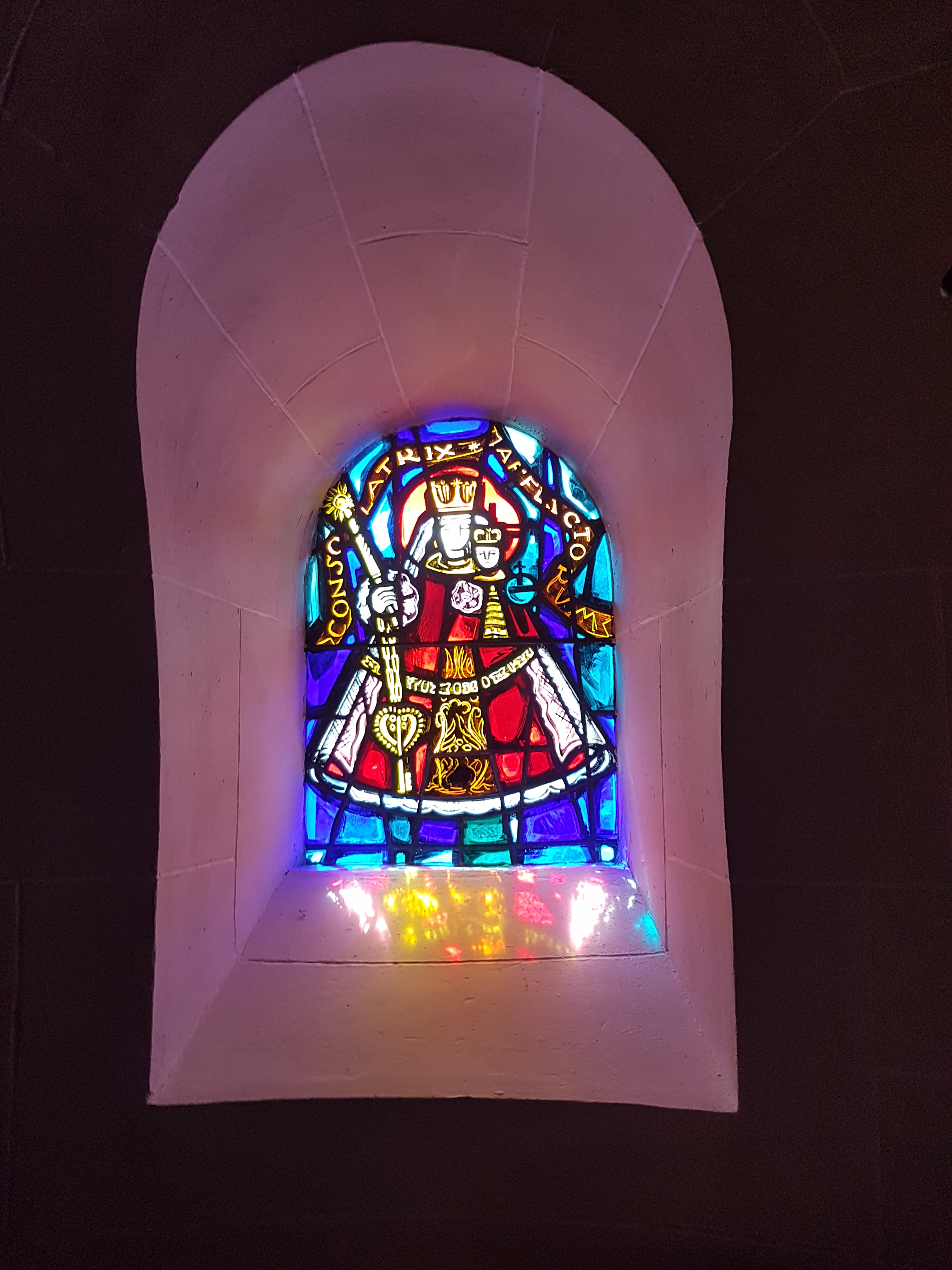 Interior of the Roman Catholic Church in Clervaux (also: Church of St. Cosmas and Damian, lux .: Kierch zu Klierf; french: Église Saints-Côme-et-Damien, german: Kirche in Clerf or Kirche St. Cosmas und Damian) in the Montée de l'église (street) in the municipality of Clervaux' (lux.: Klierf